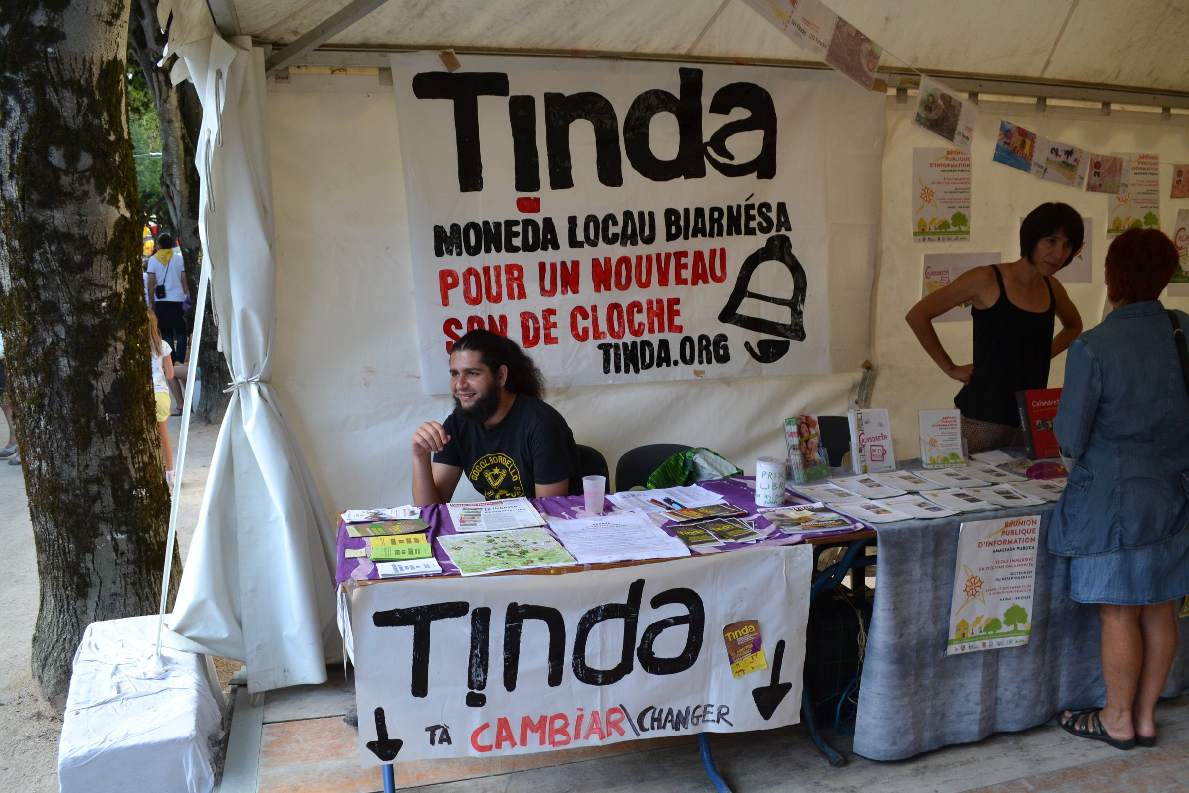 La Tinda stand during Hestiv'òc 2016.